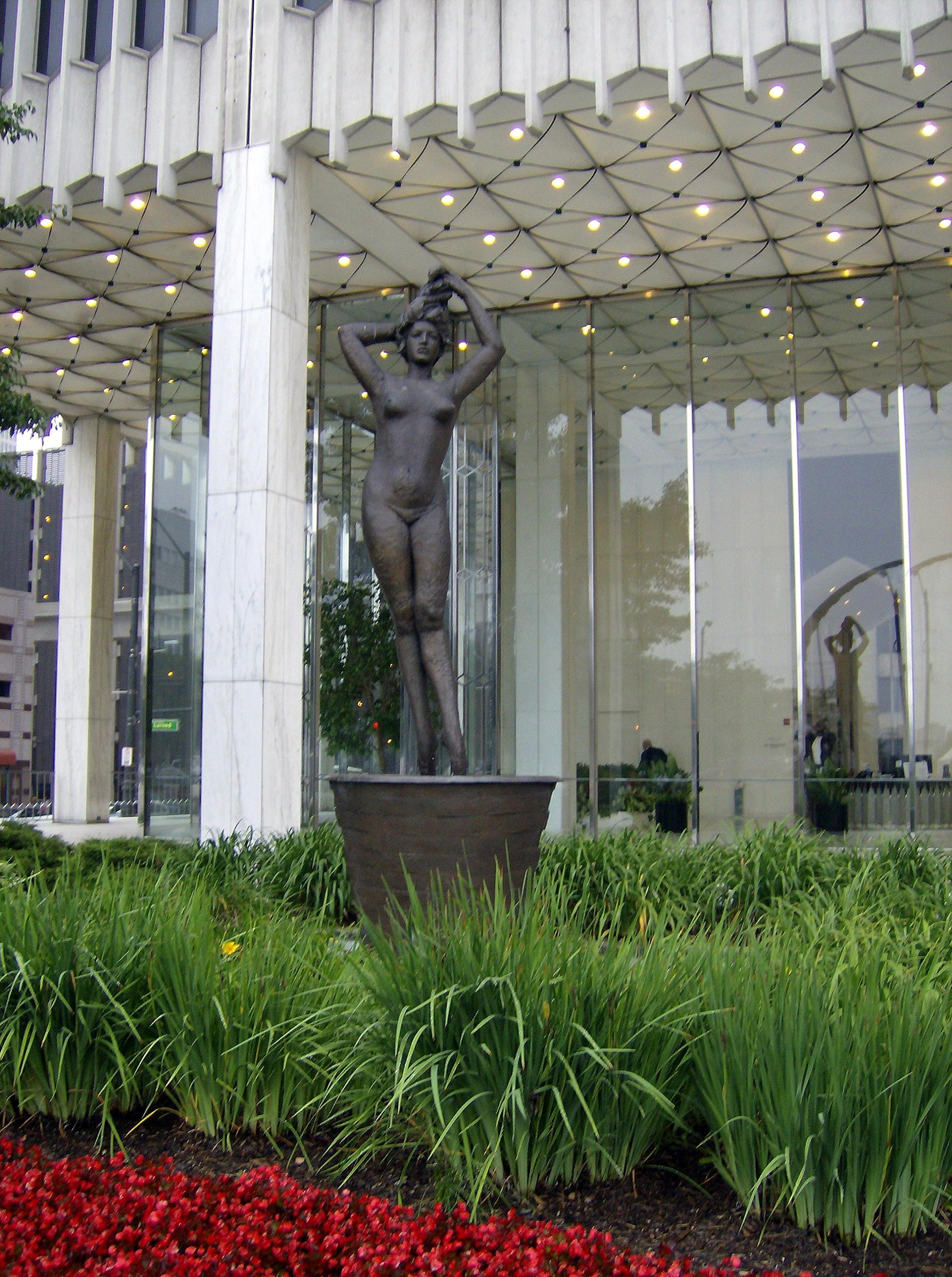 The sculpture Passo di Danza (Step of the Dance), by Giacomo Manzu, in the foyer of the One Woodward Avenue building in Detroit, Michigan.